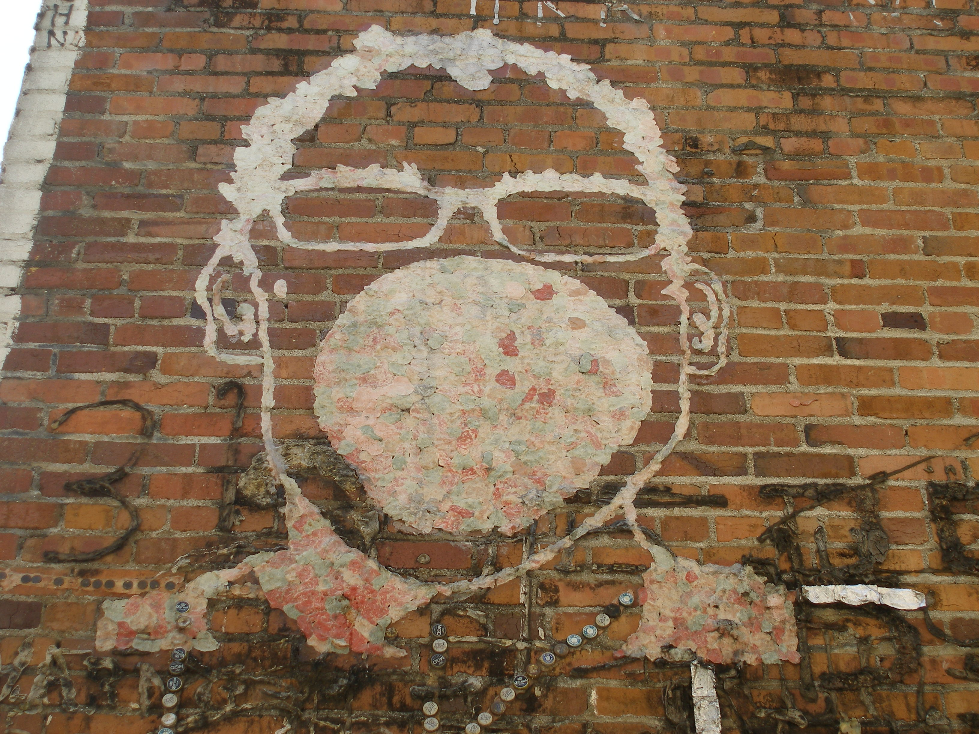 Mat Hoffman's Self Portrait, Bubblegum Alley in San Luis Obispo